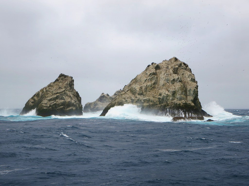 Shag Rocks lie alone in the Scotia Sea between the Falkland Islands and South Georgia. The six tiny islands are almost on the Antarctic Convergence where the Atlantic and Southern oceans meet.